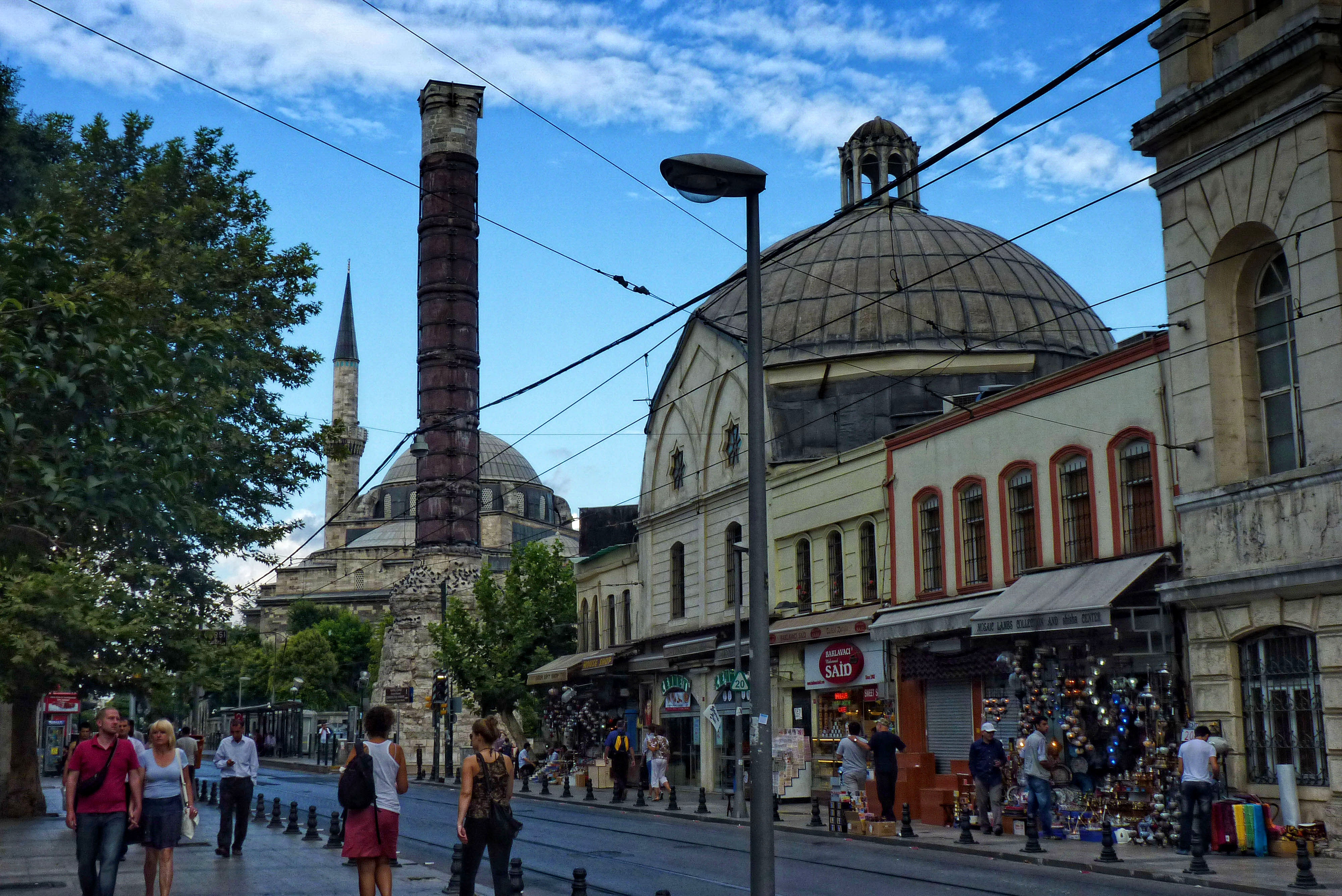 Cemberlitas Hamami / Çemberlitaş Hamamı - Sultanahmet, Estambul (Istanbul).